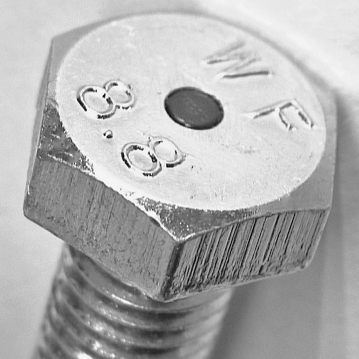 Screw with NeoTAG plug - miniaturized RFID transponder 13,56MHz in metal